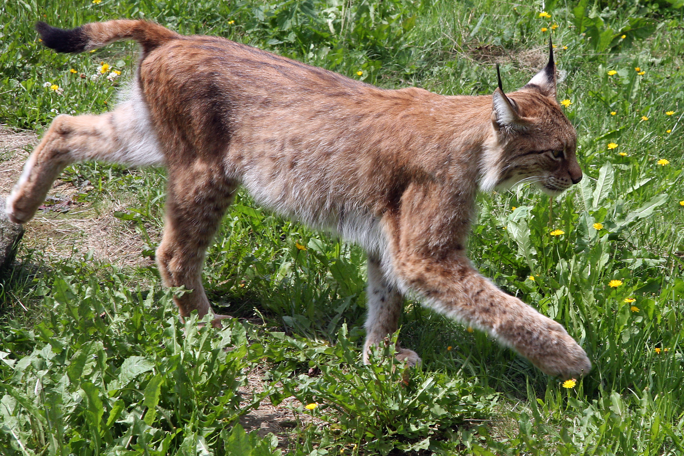 Eurasian lynx at a zoo in southern Sweden, Skånes djurpark.